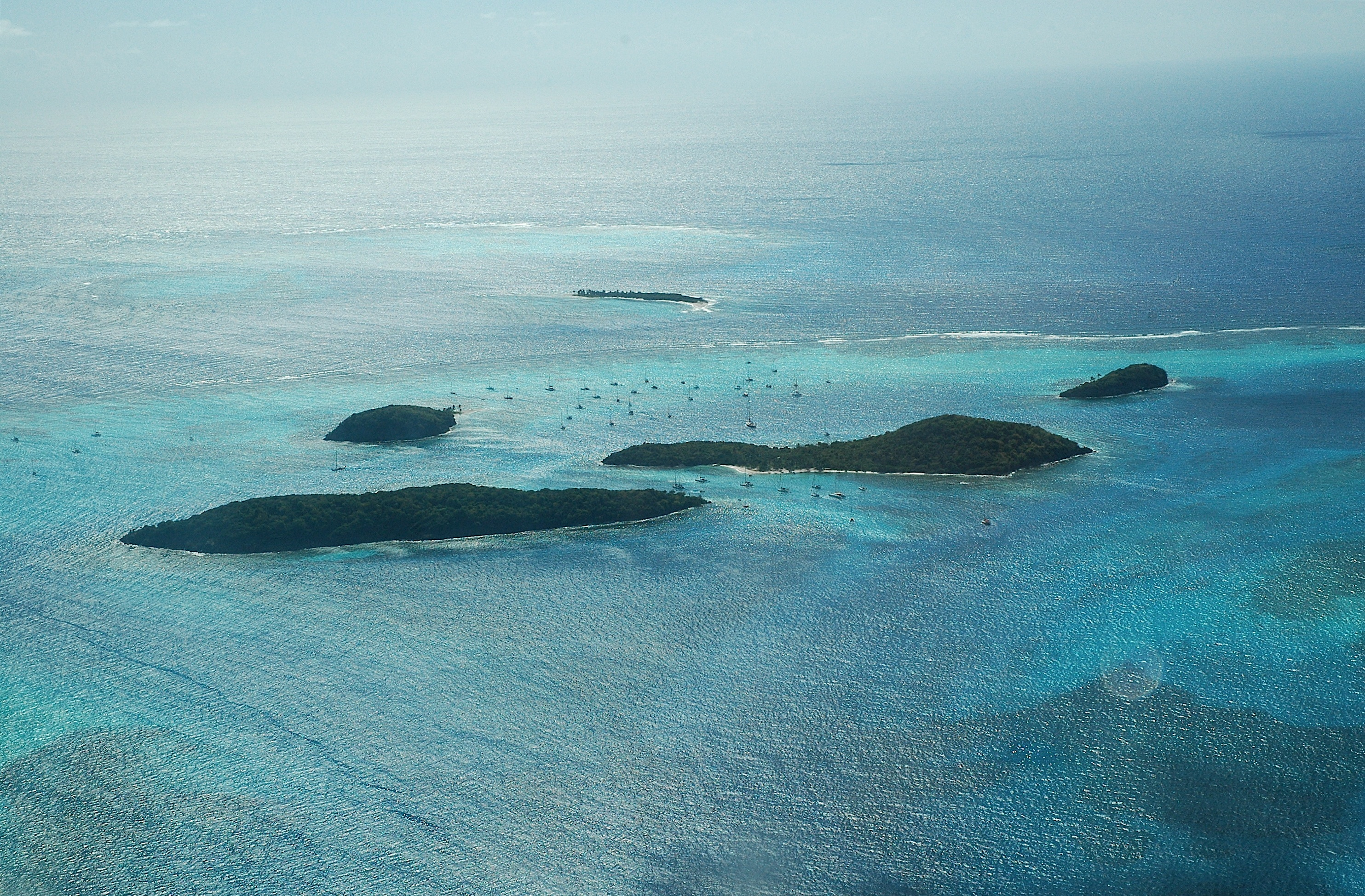 Aerial view of Tobago Cays, a Saint Vincent and the Grenadines National Marine Park Photo by Iain Grant, 2007 used in Union Island citation